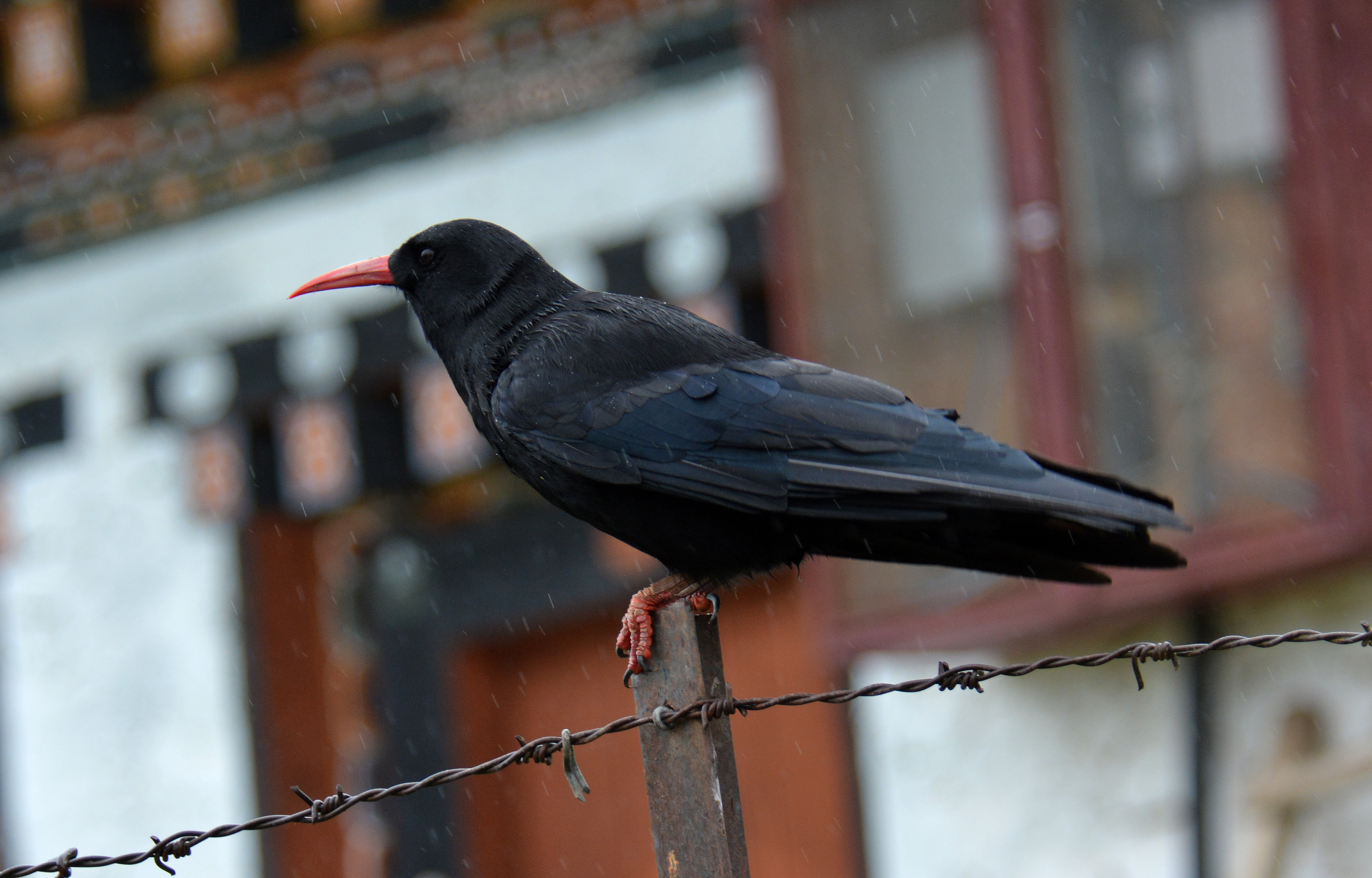 Red-billed Chough Pyrrhocorax pyrrhocorax by Dr. Raju Kasambe. Photo taken in Bhutan.